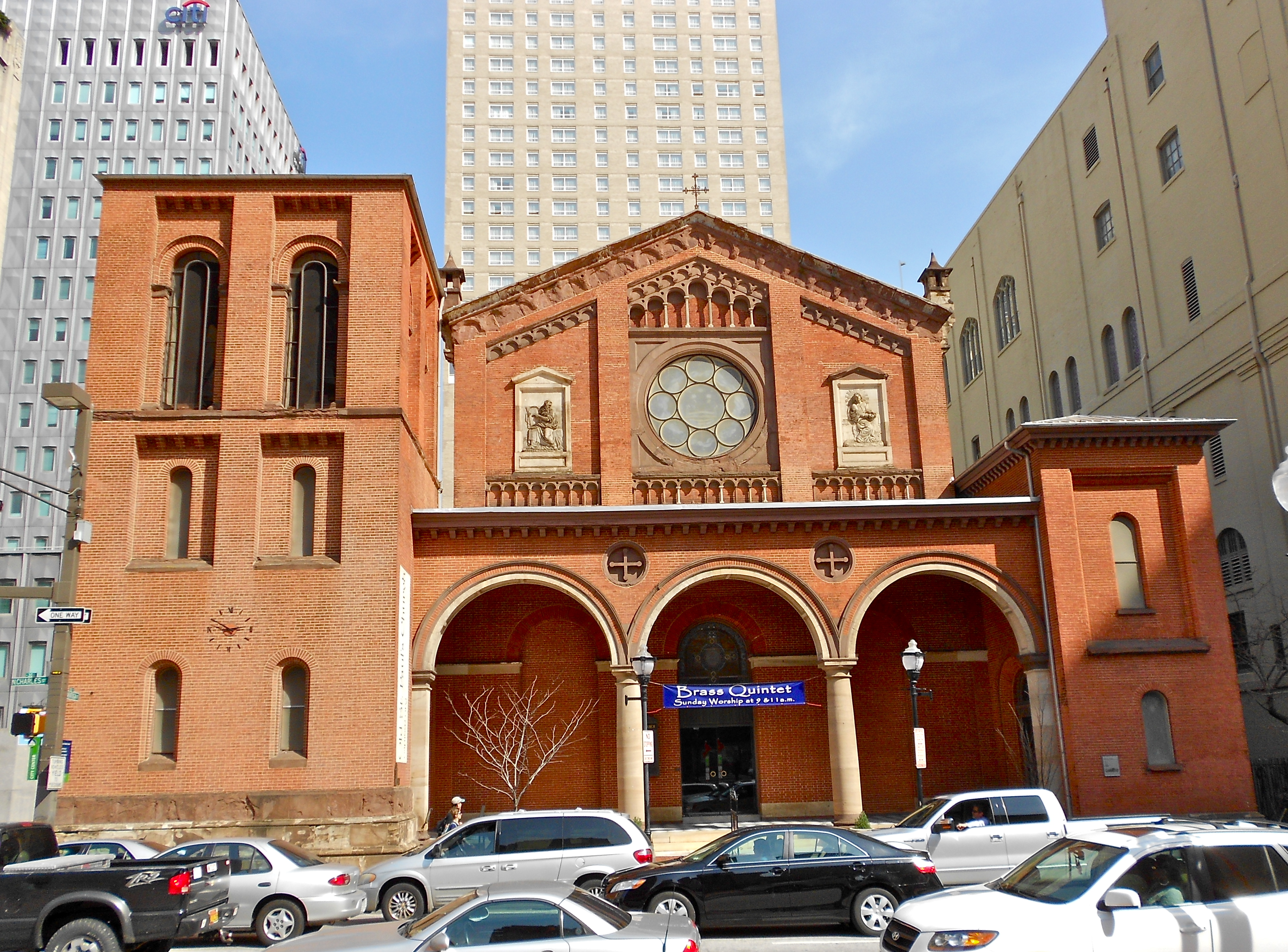 St. Paul's Protestant Episcopal Church on the NRHP since March 30, 1973. At 233 N. Charles St. in central Baltimore, Maryland. Rectory across the street is also separately listed on the NRHP.